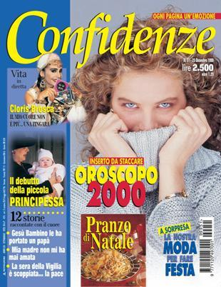 Cover of Confidenze magazine, 23 dec. 1999. Arnoldo Mondadori Editore, Mondadori Group.